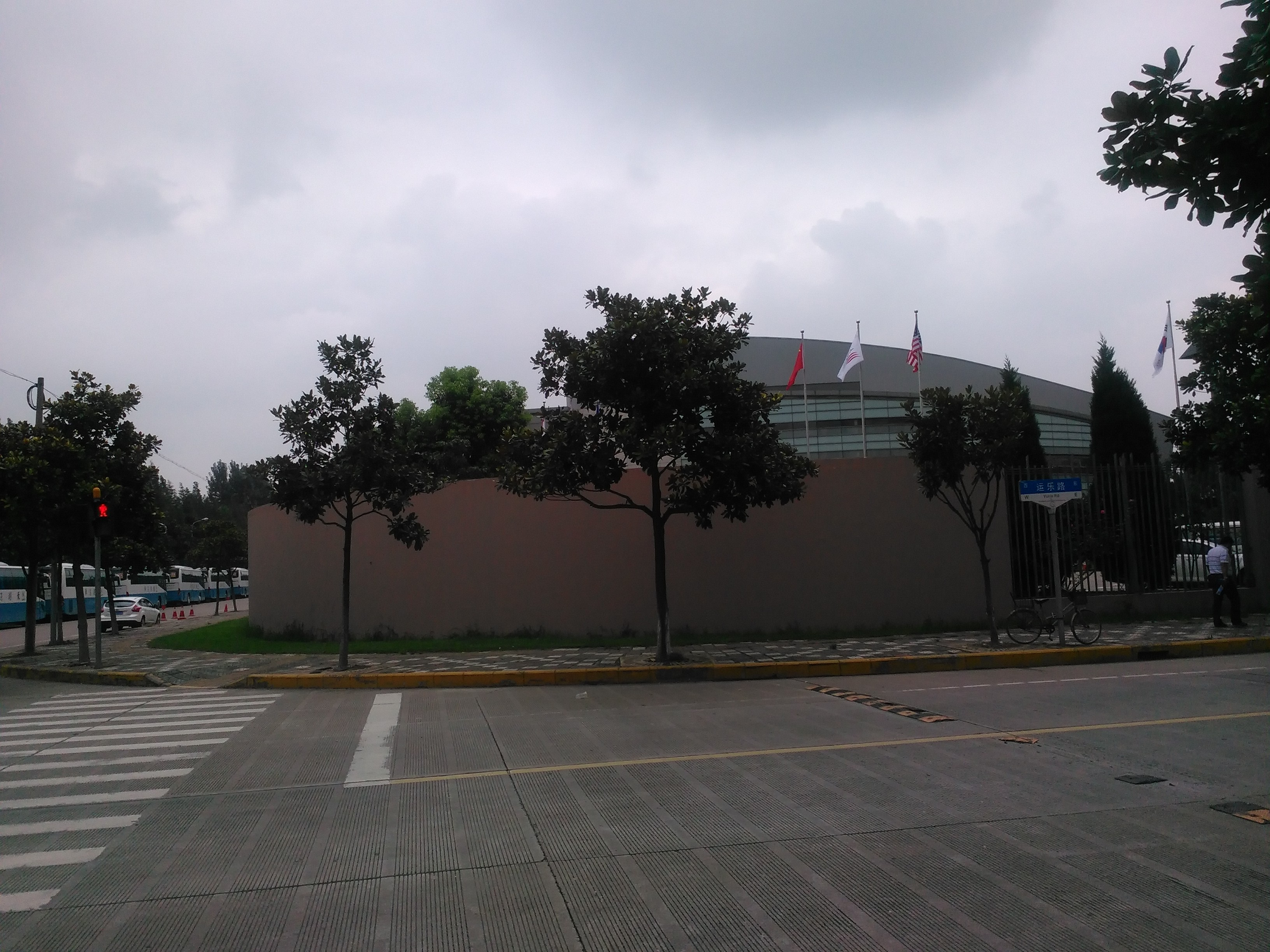 Shanghai American School - Puxi Campus - 258 Jinfeng Road, Huacao Town, Minhang District